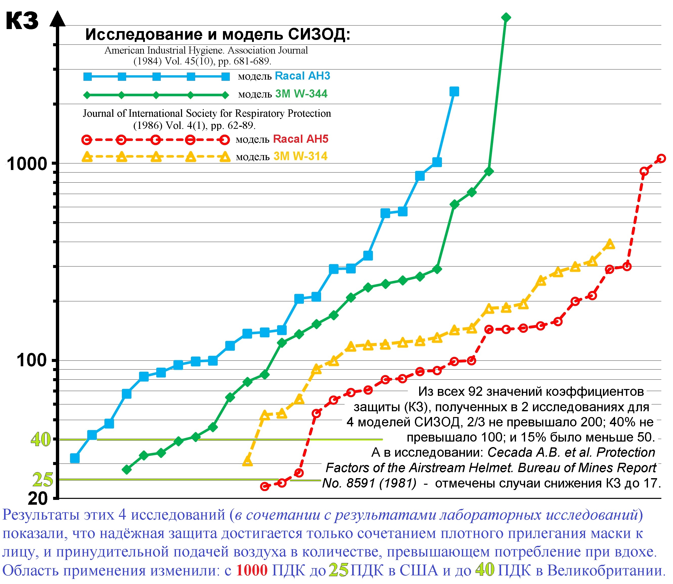 The diagram show 92 values ​​of the Workplace Protection Factors WPFs (the ratio of the concentration of harmful substances in the breathing zone outside the facepiece to the in-facepiece concentration, in the inhaled air) of Powered Air-Purifying Respirators (PAPRs) with loose-fitting facepieces (hood or helmet). These workplace (field) studies revealed unexpectedly low RPD performance: instead of reducing air pollution in 1000 times and more (that they consistently demonstrated in the laboratory conditions), the worcplace PF decreased up to 23-24, and usually does not exceed 200. These results led to change the Assigned Protaction Factors (allowable area of ​​usage) of such PPE - from 1000 PEL to 25 PEL (in US); and up to 40 OEL (in UK)